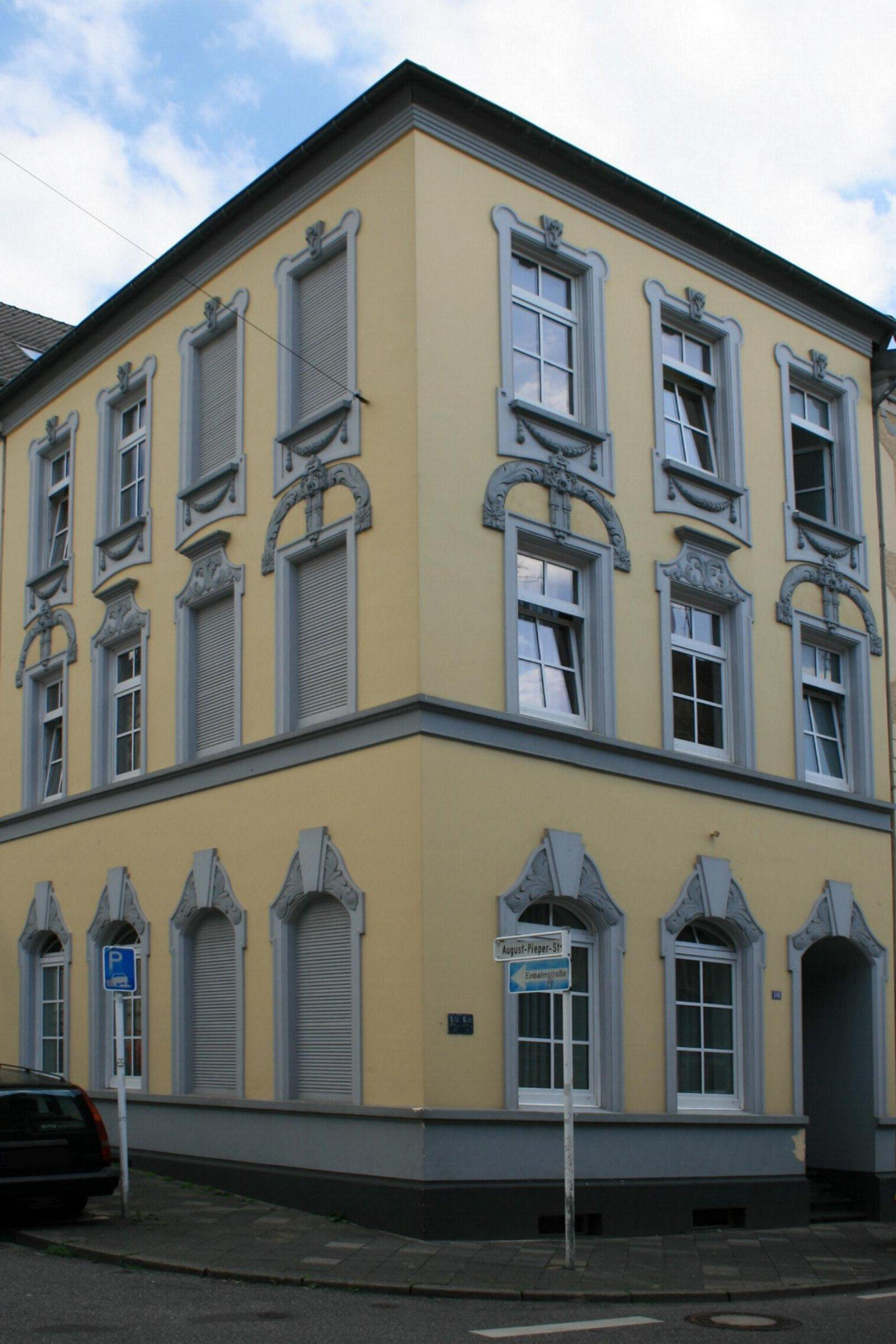 Cultural heritage monument No. W 008 in Mönchengladbach